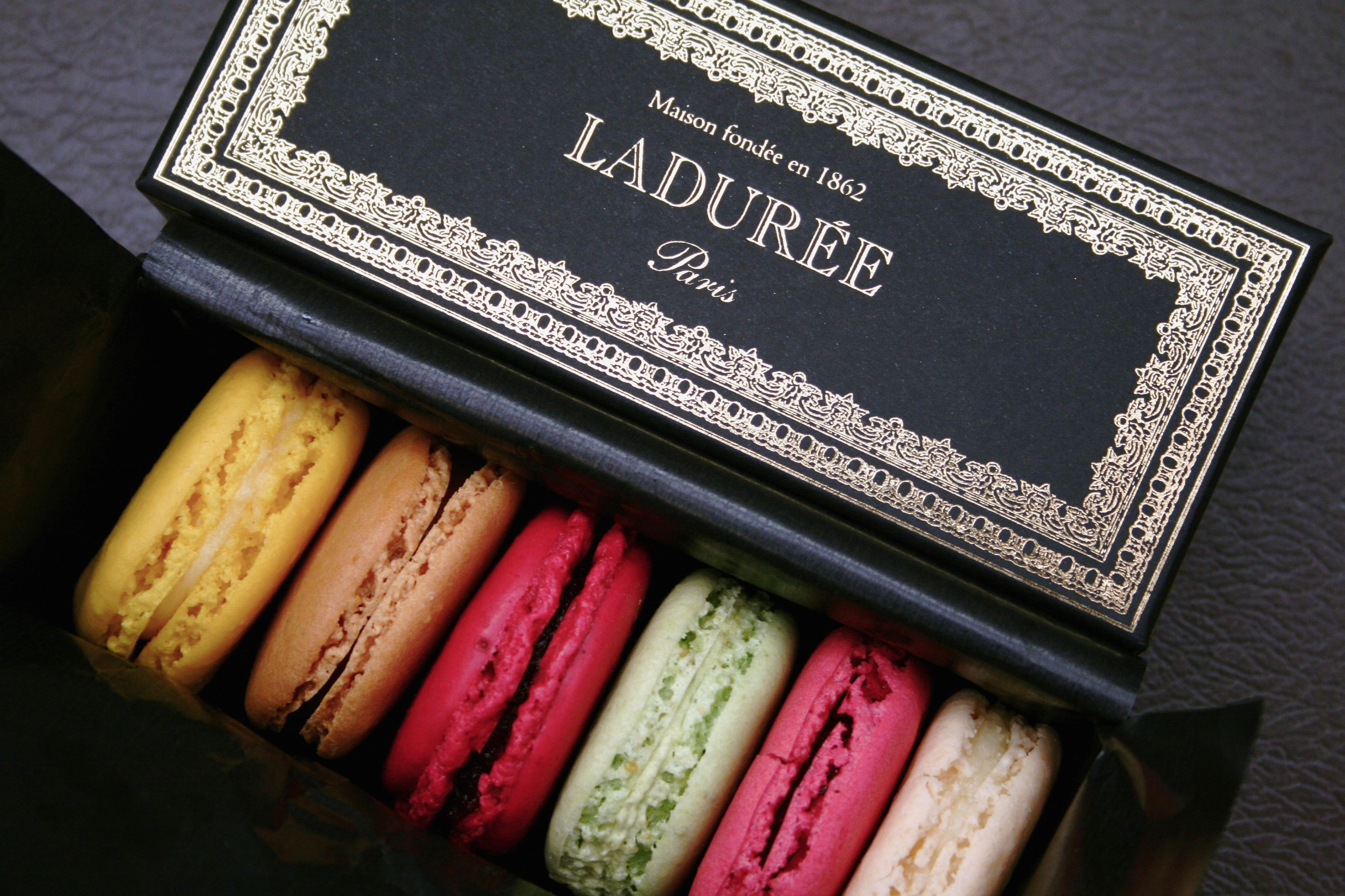 Detailing the progression of a macaroon, from box to plate to mouth. Robert Archard should definitely make a macaron version of his keepsake boxes!